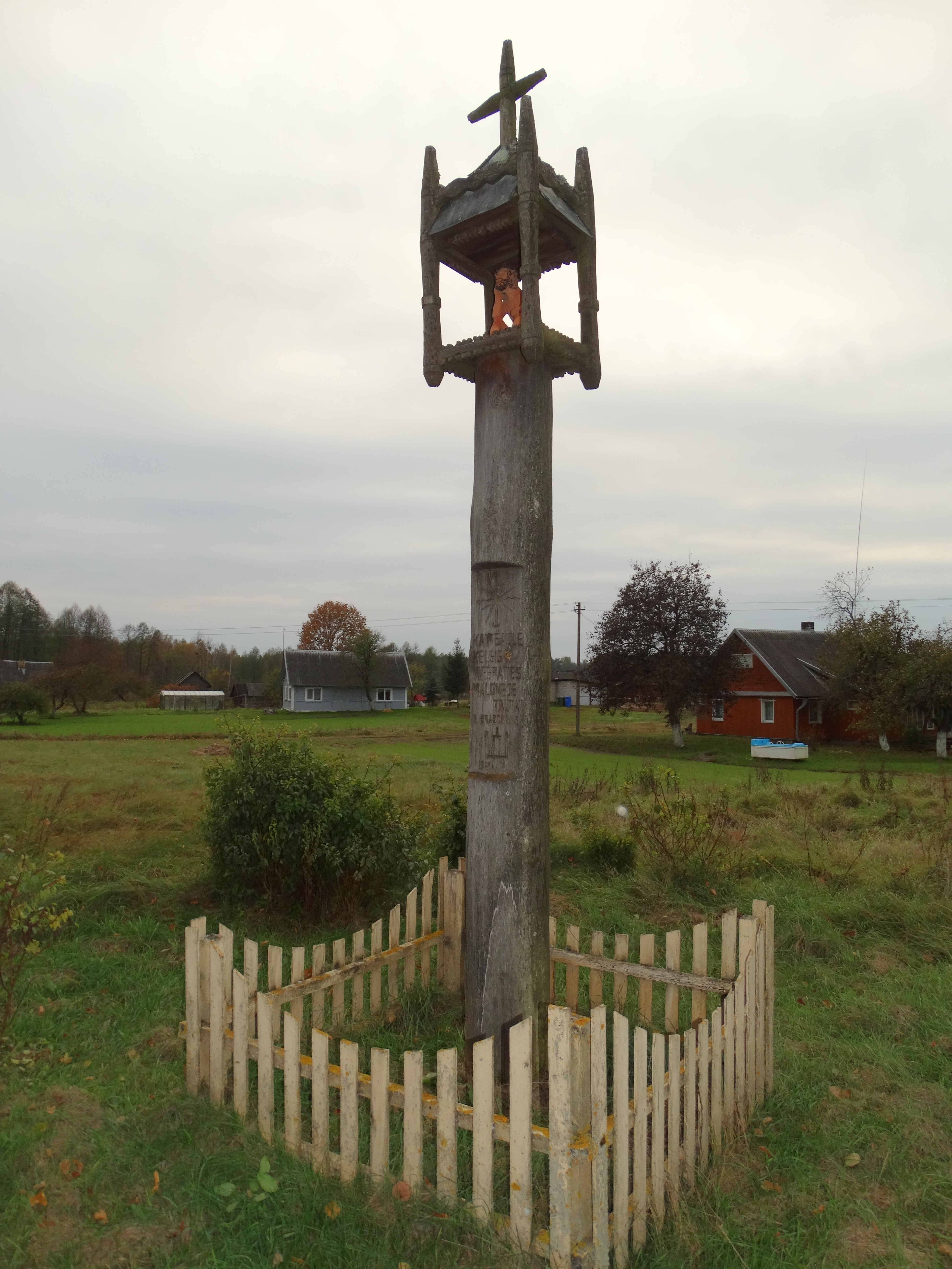 Randamonys, Druskininkai Municipality, Lithuania